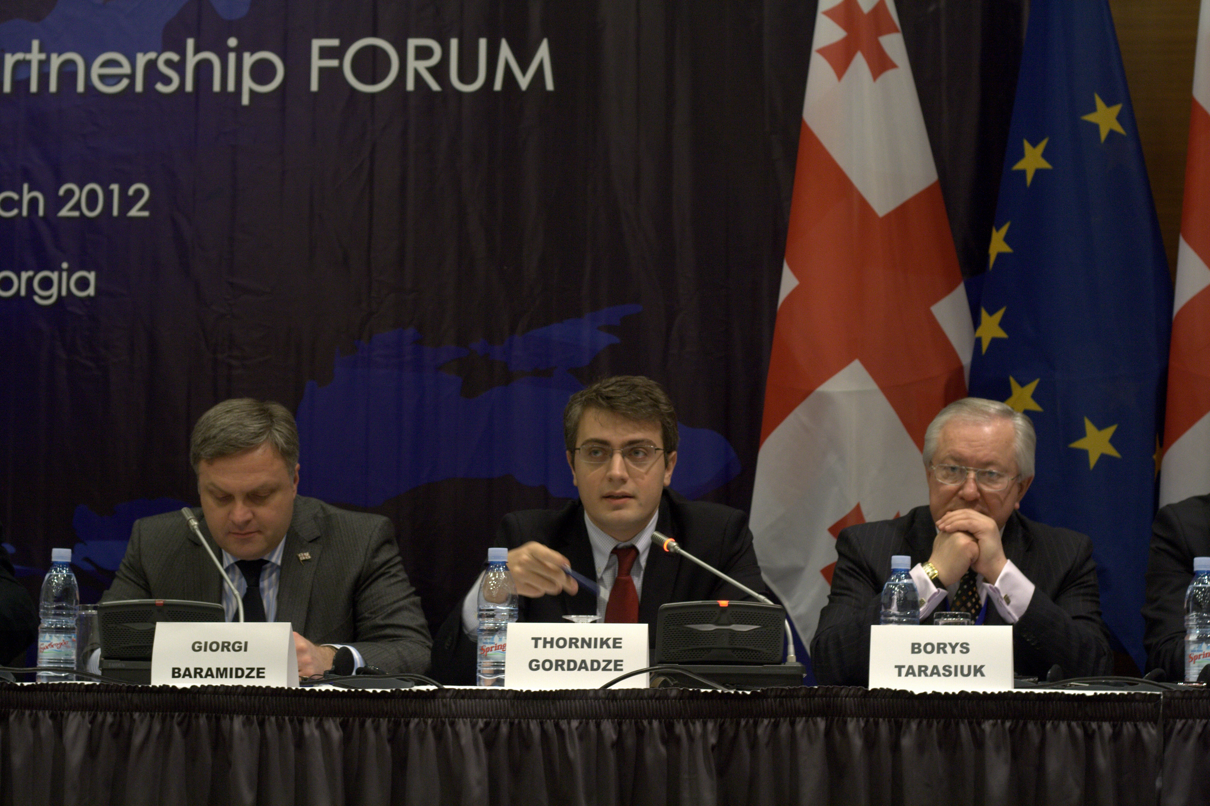 The 1st EU–Eastern Partnership forum. Tbilisi, 22-24 March 2012. Photo by Anna Woźniak.